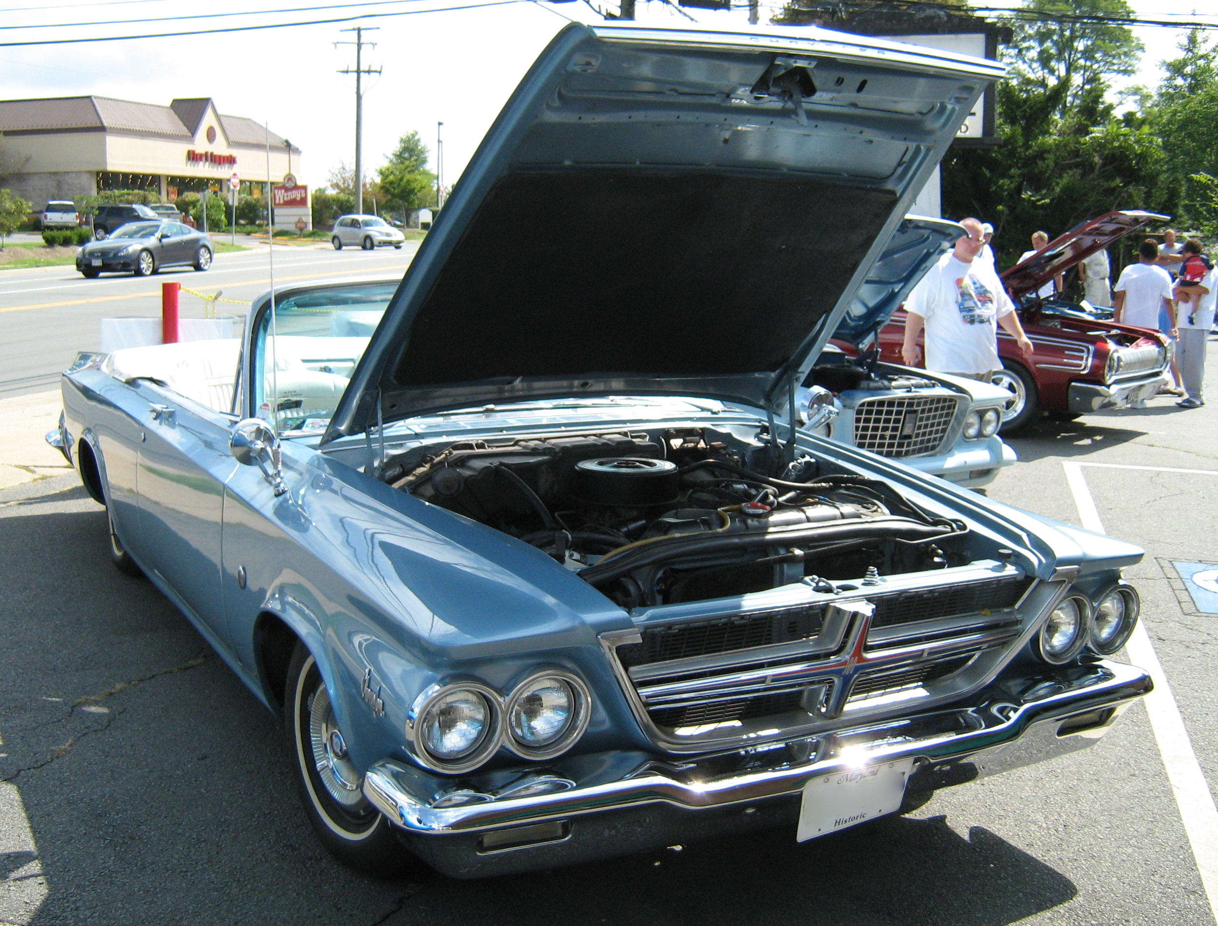 1964 Chrysler 300 K convertible - blue.